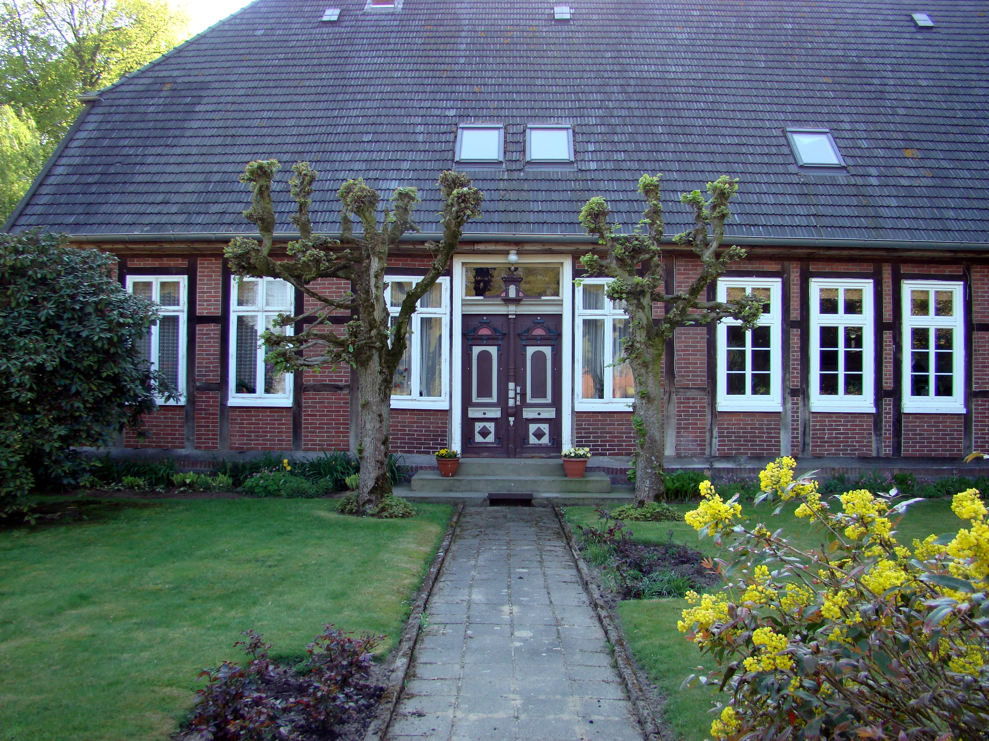 Entrance to the living accommodation of a farmhouse, Nindorf, Lower Saxony, Germany.